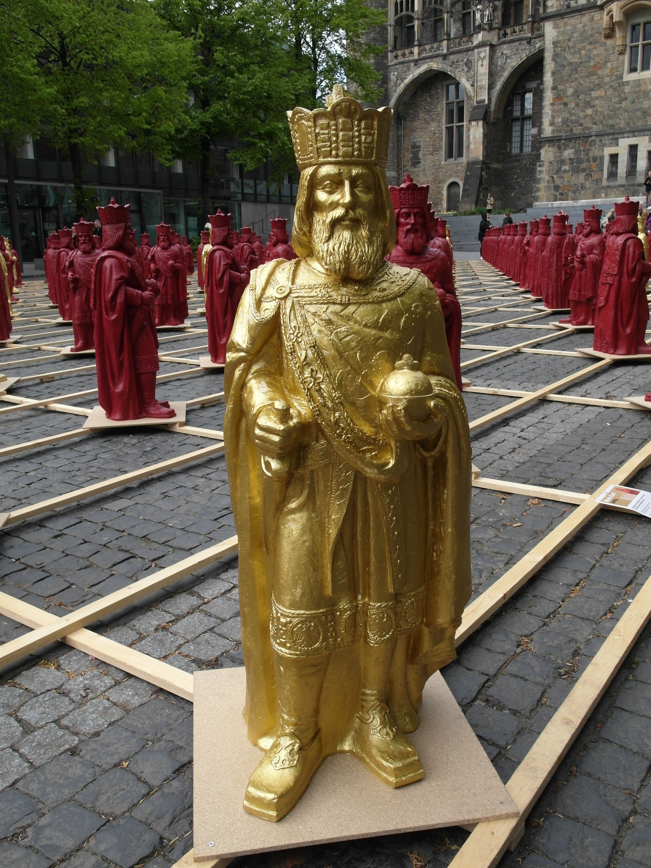 Art installation "Mein Karl 2014" by Ottmar Hörl on the Katschhof place in Aachen, Germany, on occasion of the 1200th anniversary of the death of Charlemagne